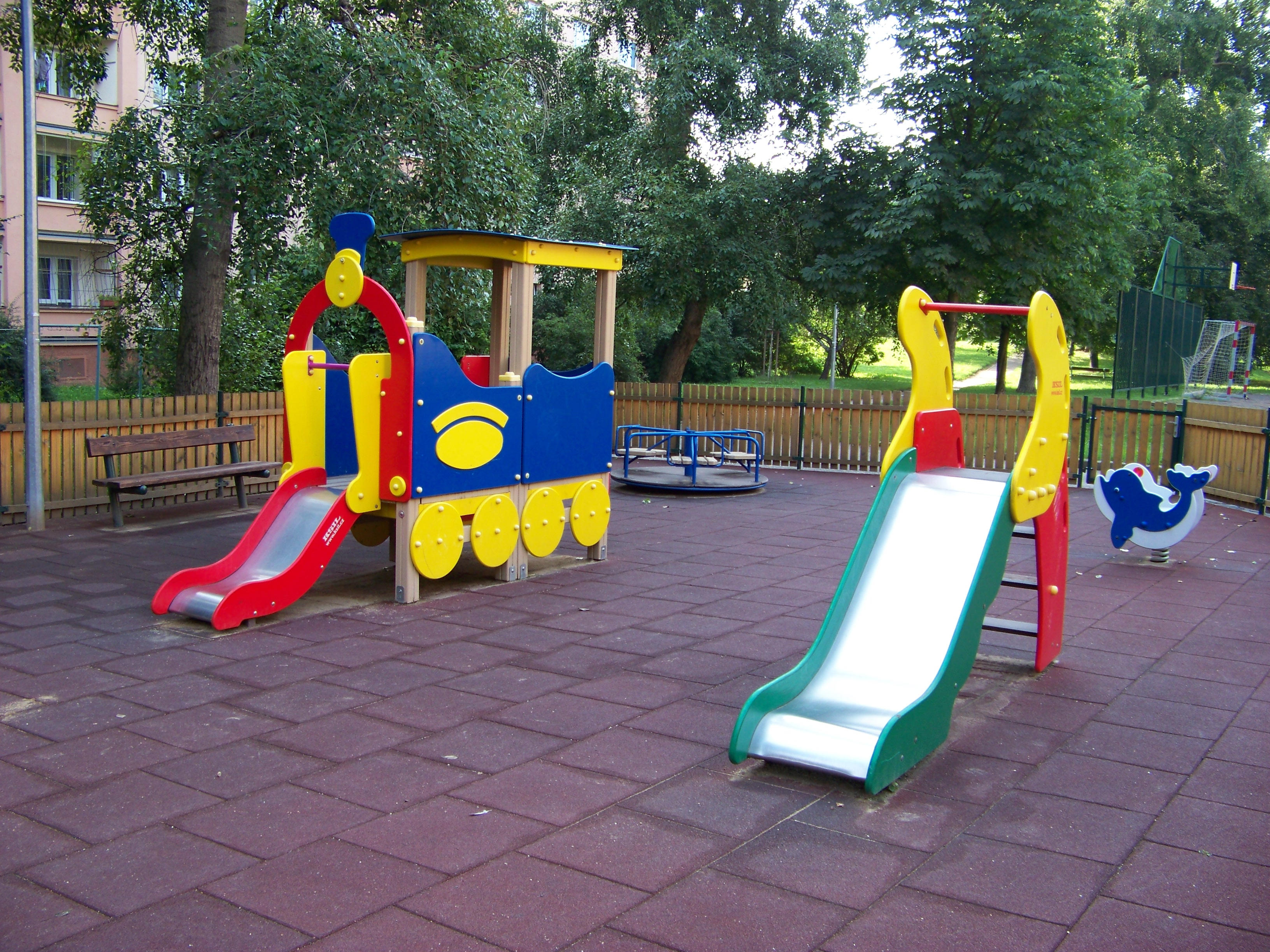 Prague-Malešice, the Czech Republic. Malešice Housing Estate, Přistoupimská street, a playground.